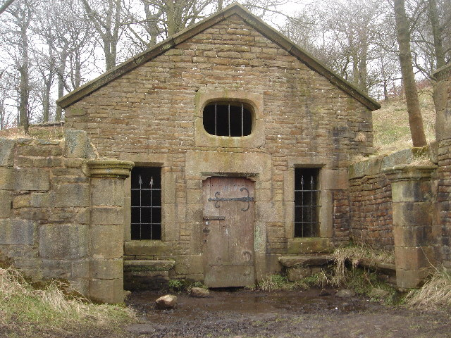 The Well House, Hollinshead Hall ruins. The Well House was built to replace the old farm well when the house was for the most part demolished and rebuilt in 1776.